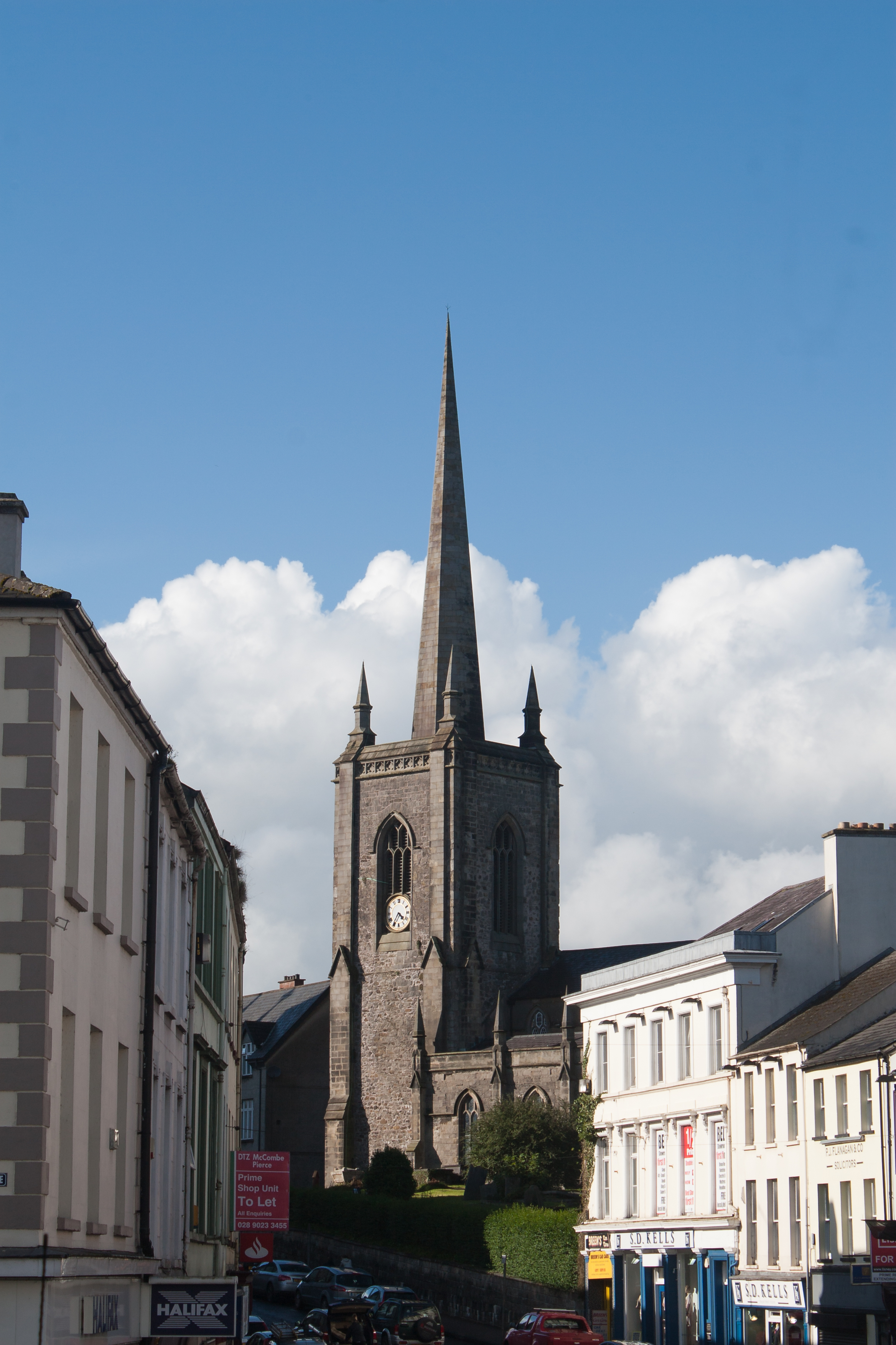 St. Macartin's Cathedral, as seen from Church Street looking north-west.